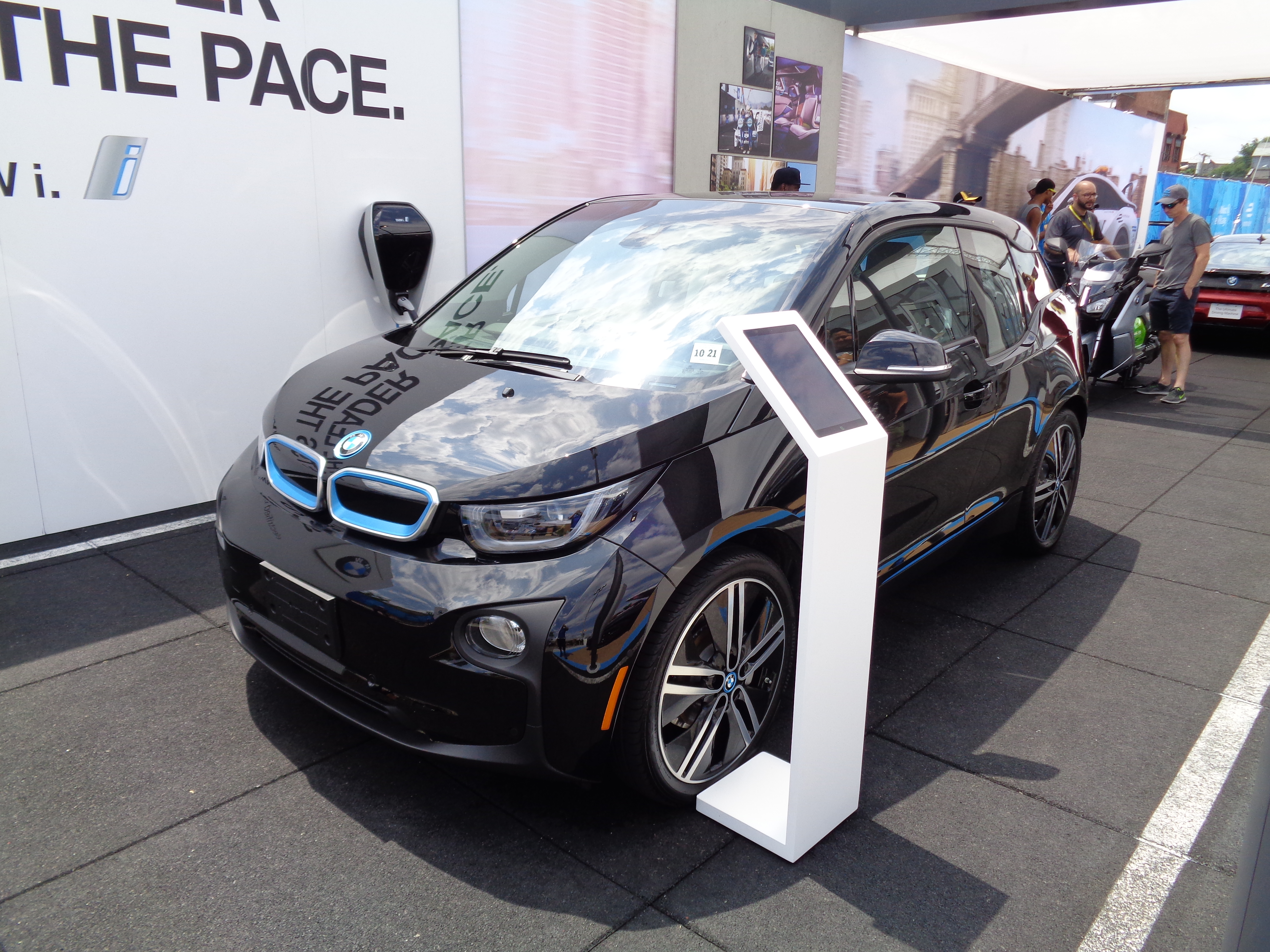 The first race of the 2017 New York City ePrix in Red Hook, Brooklyn, on Saturday, July 15, 2017.